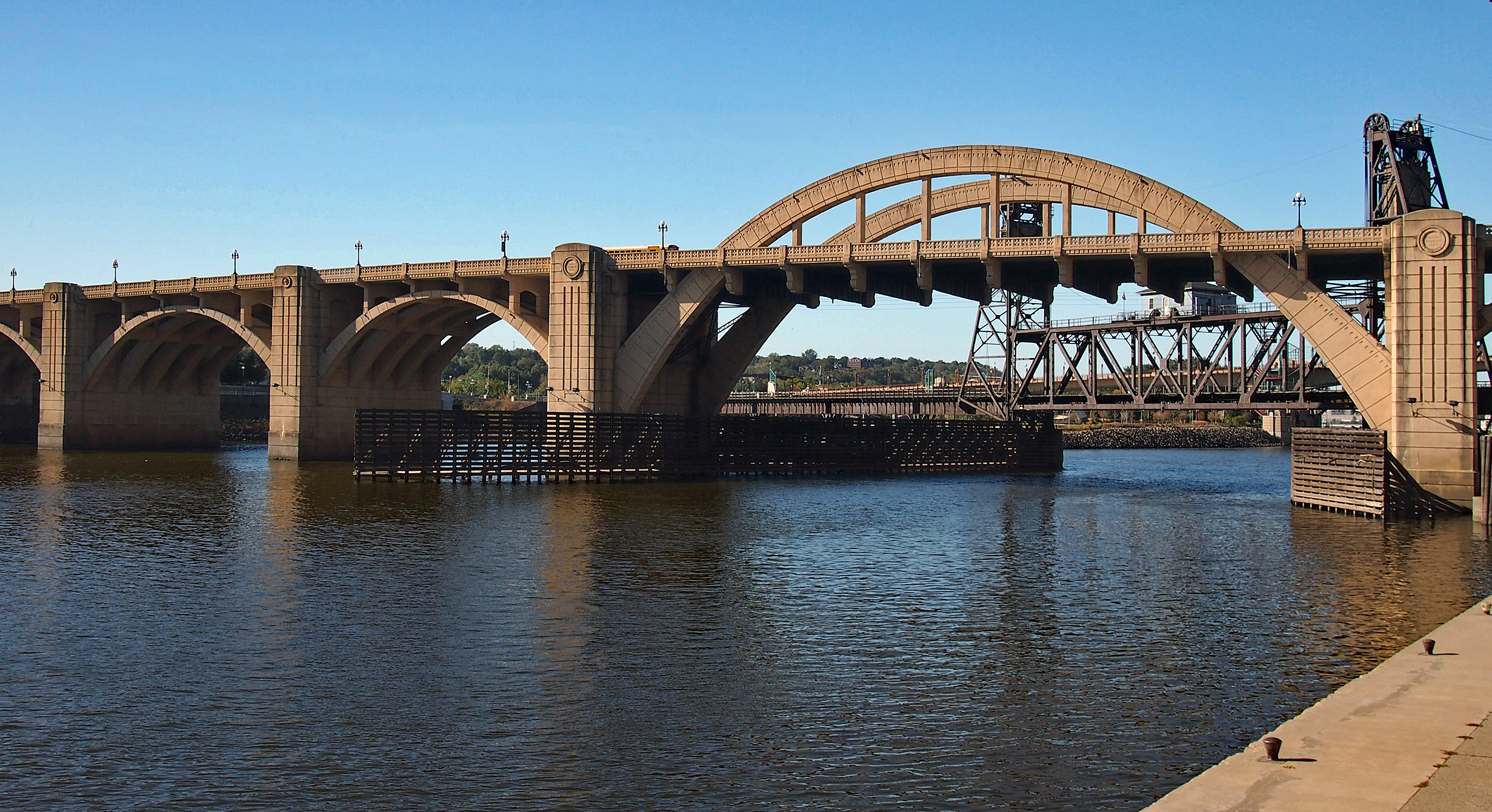 Robert Street Bridge, Saint Paul, Minnesota, USA. Main river spans viewed from the north from Shepherd Road.